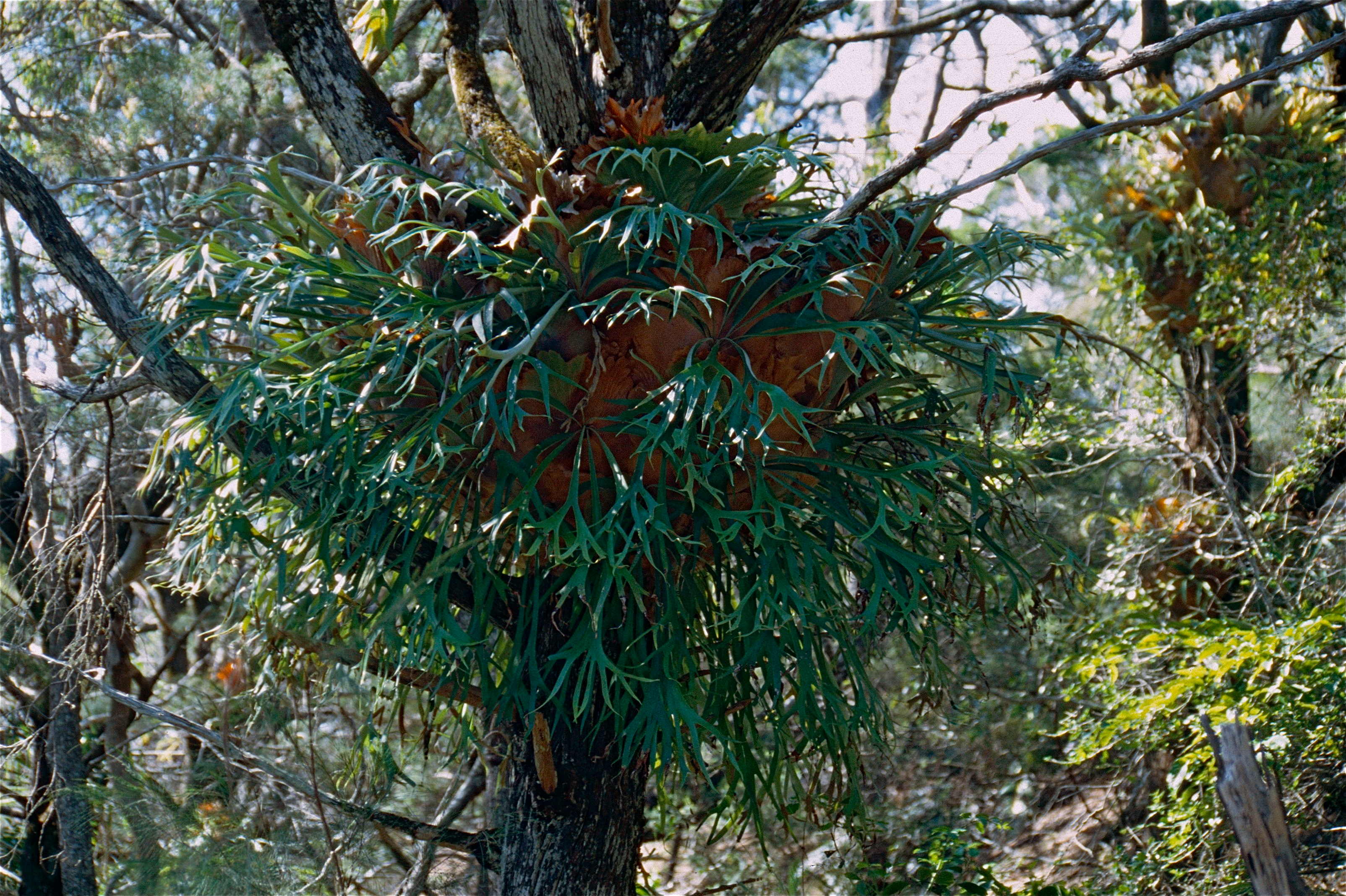 Pile Valley, Fraser Island, South Queensland, AUSTRALIA Scanned Slide from Dec 2000